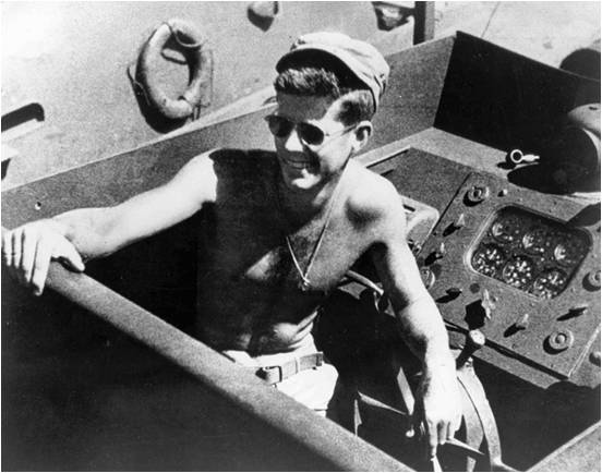 FILE PHOTO (circa 1943) Lt.j.g. John F. Kennedy aboard the PT-109. (Photo courtesy the John F. Kennedy Presidential Library and Museum, Boston/Released)